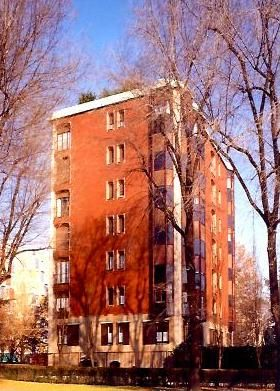 Tizianella Building in Milano, 1961.